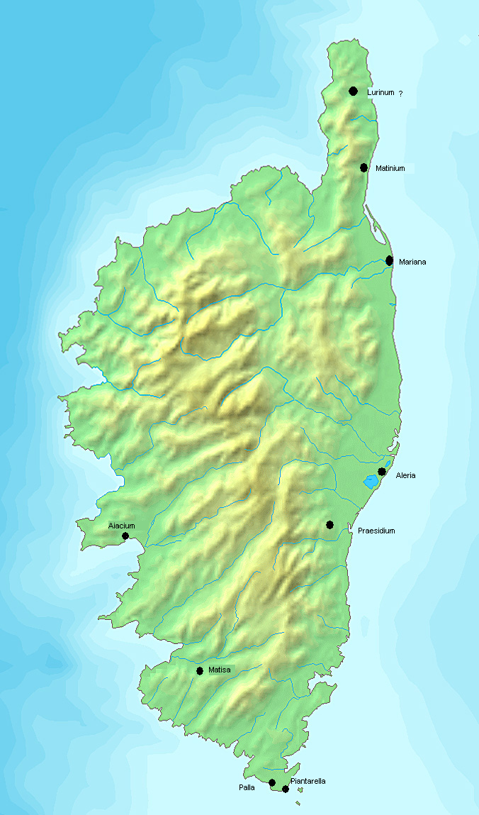 Map of ancient roman Corse, own Work, based upon Image:Corse.jpg (12.08.06)